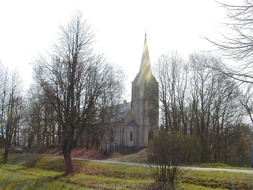 Aizkraukle Evangelical Lutheran Church